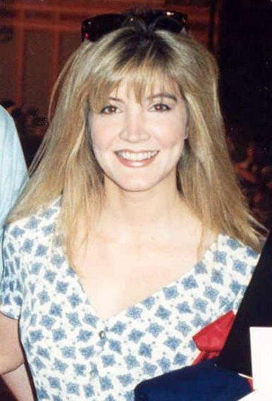 Crystal Bernard at the Emmy rehearsal 9/10/94